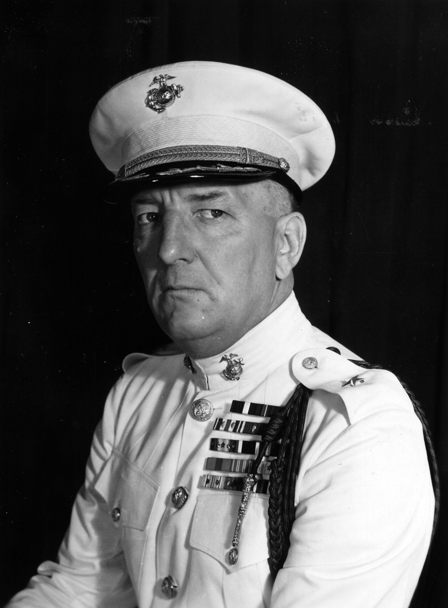 LeRoy Philip Hunt (March 17, 1892 – February 8, 1968) was a highly decorated officer in the United States Marine Corps with the rank of General. A veteran of World War I, he was decorated the Navy Cross and Army Distinguished Service Cross, the United States military's two second-highest decorations awarded for valor in combat.